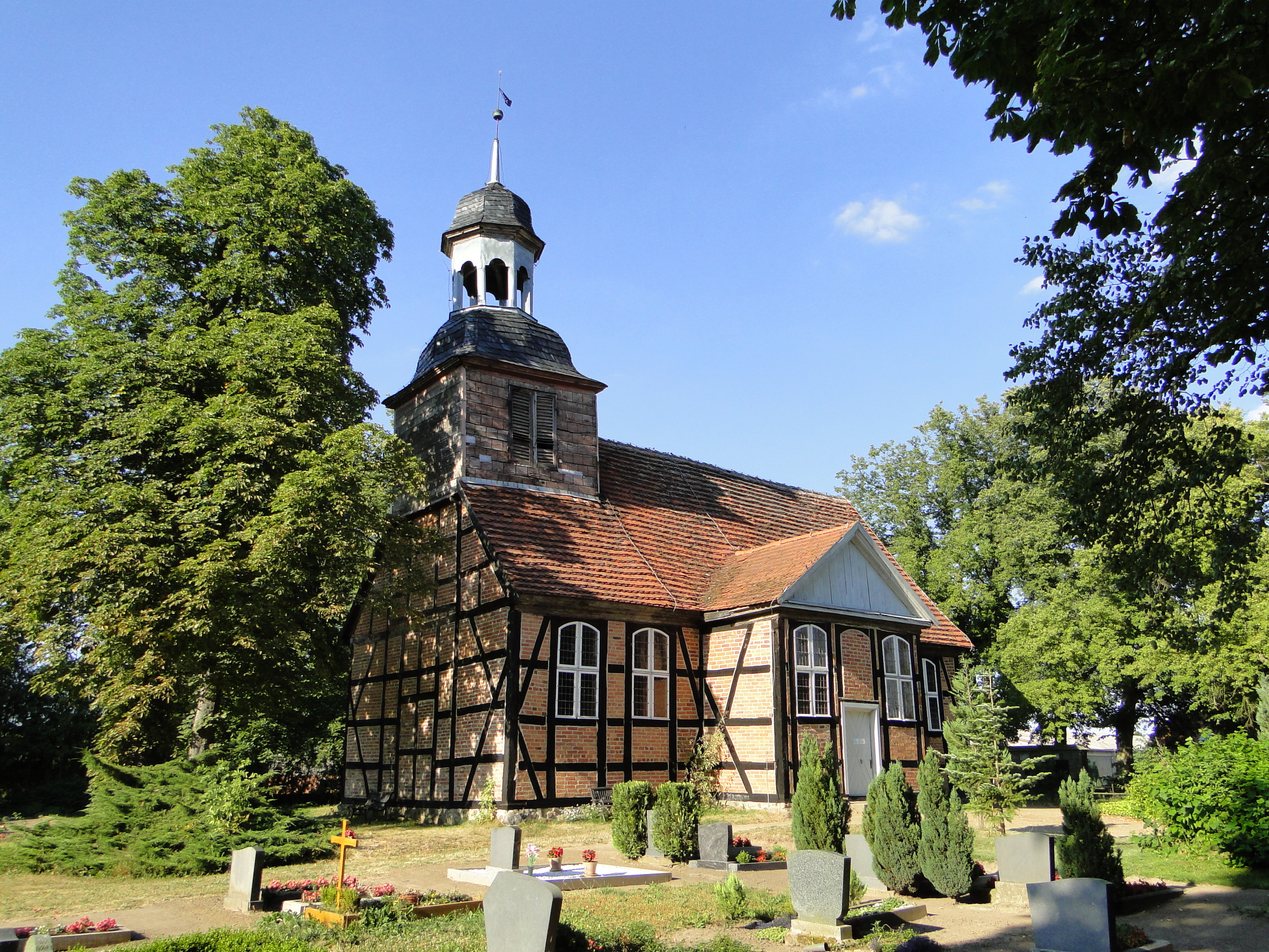 church in Breesen, district Demmin, Mecklenburg-Vorpommern, Germany